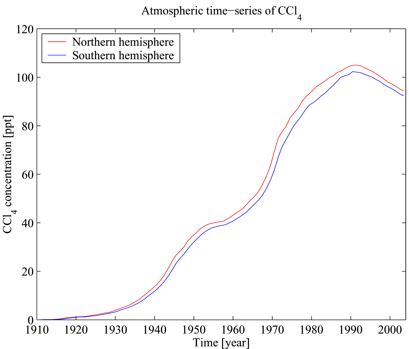 Time series of atmospheric concentrations of carbon tetrachloride from 1908 to 2003. Mixing ratio concentrations are shown for the northern and southern hemispheres, and are expressed as parts per trillion (ppt). The data are plotted here using MATLAB. The published source of data for the figure is Walker, S. J., R. F. Weiss & P. K. Salameh (2000) Reconstructed histories of the annual mean atmospheric mole fractions for the halocarbons CFC-11, CFC-12, CFC-113 and carbon tetrachloride. Journal of Geophysical Research 105, 14285—14296. The data (including error estimates and updates) are available online from the atmospheric halocarbon page at University of California.